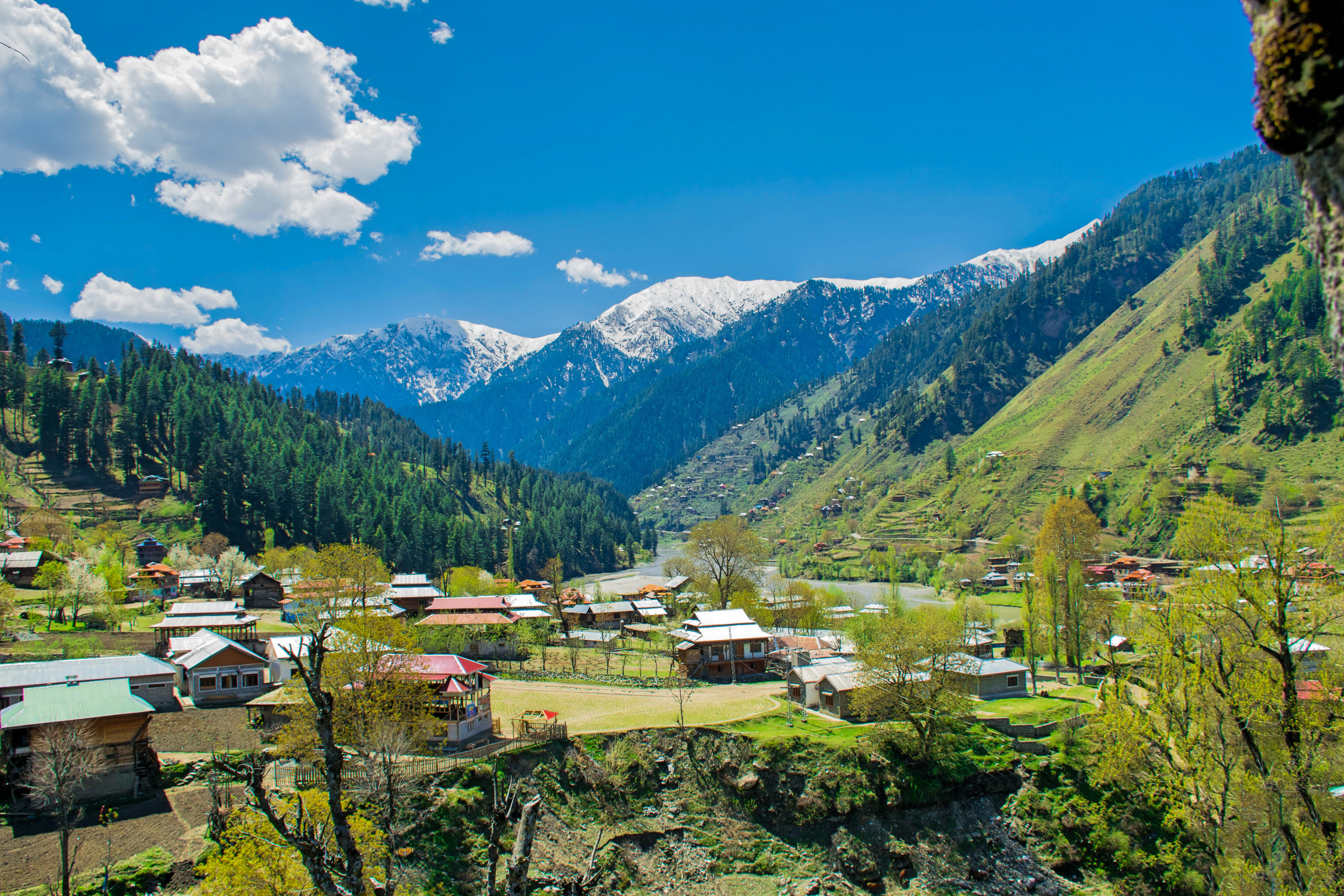 View From Sharda Fort, Azad Jammu & Kashmir, Pakistan